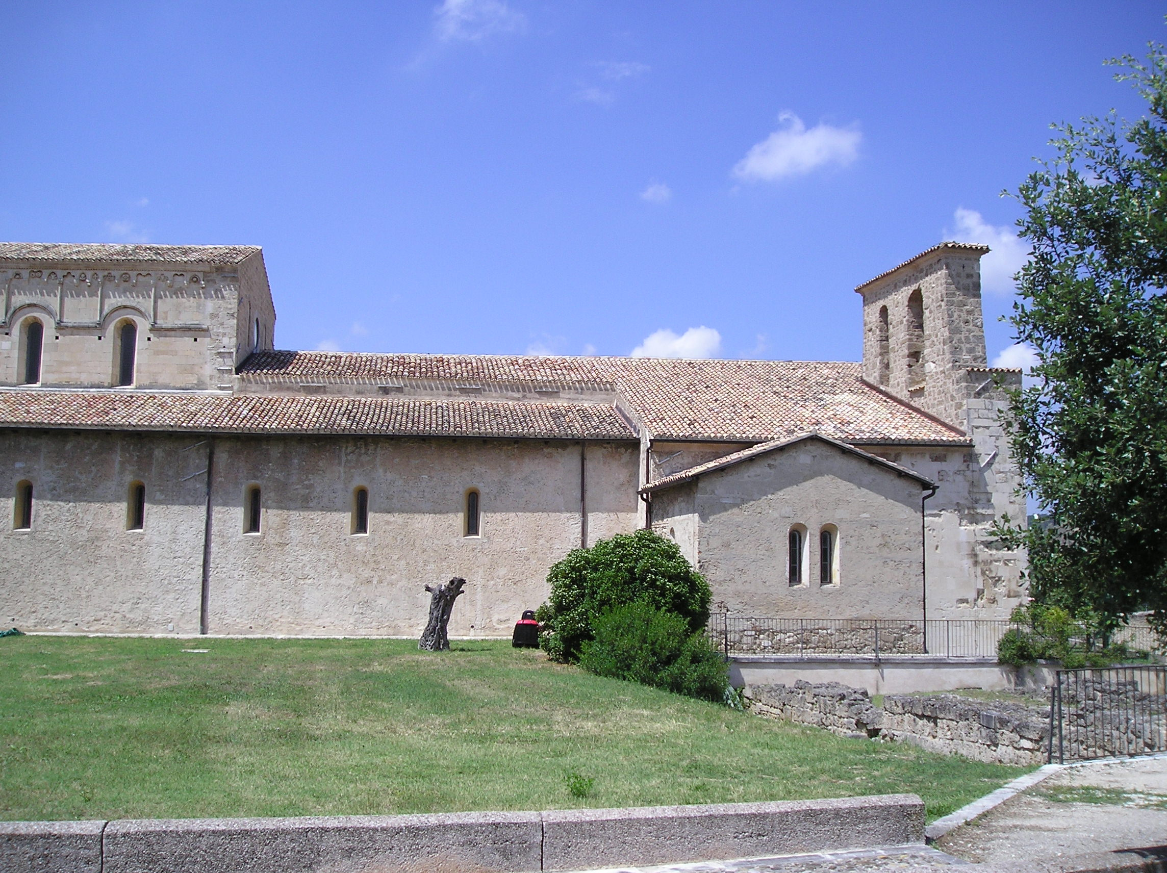 External view of the Abbey of San Clemente in Casauria, Italy